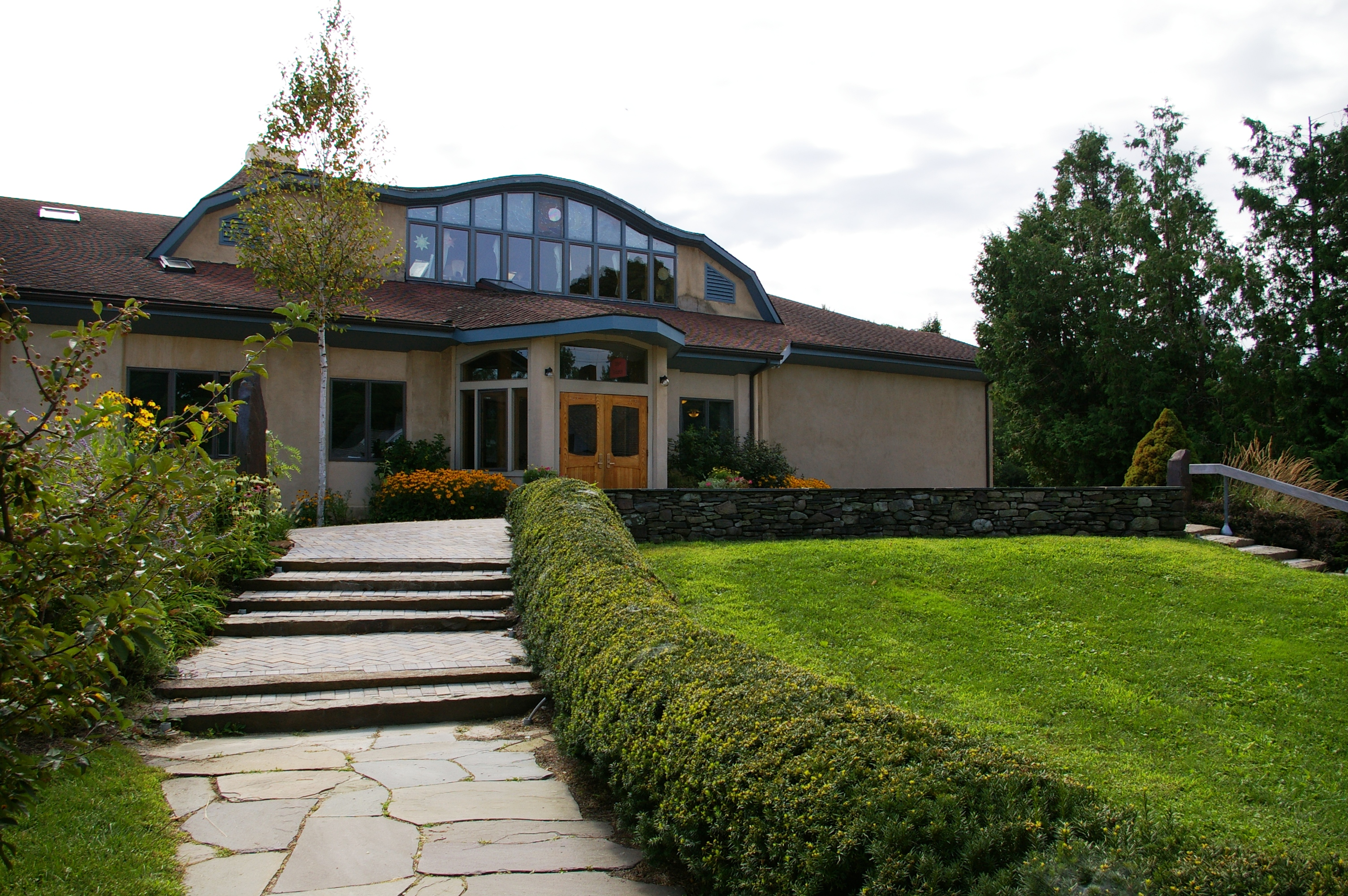 The main building at Hawthorne Valley School, a Waldorf school from nursery through Grade 12 located in Ghent, New York.